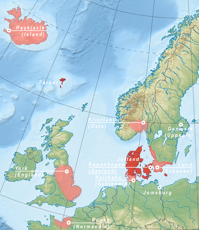 Historical expansion of the Danish people: from Scania via Sealand to Jutland towards England (9th-11th century) and Normandy (10th century), also via Faeroer to Iceland, Greenland and USA